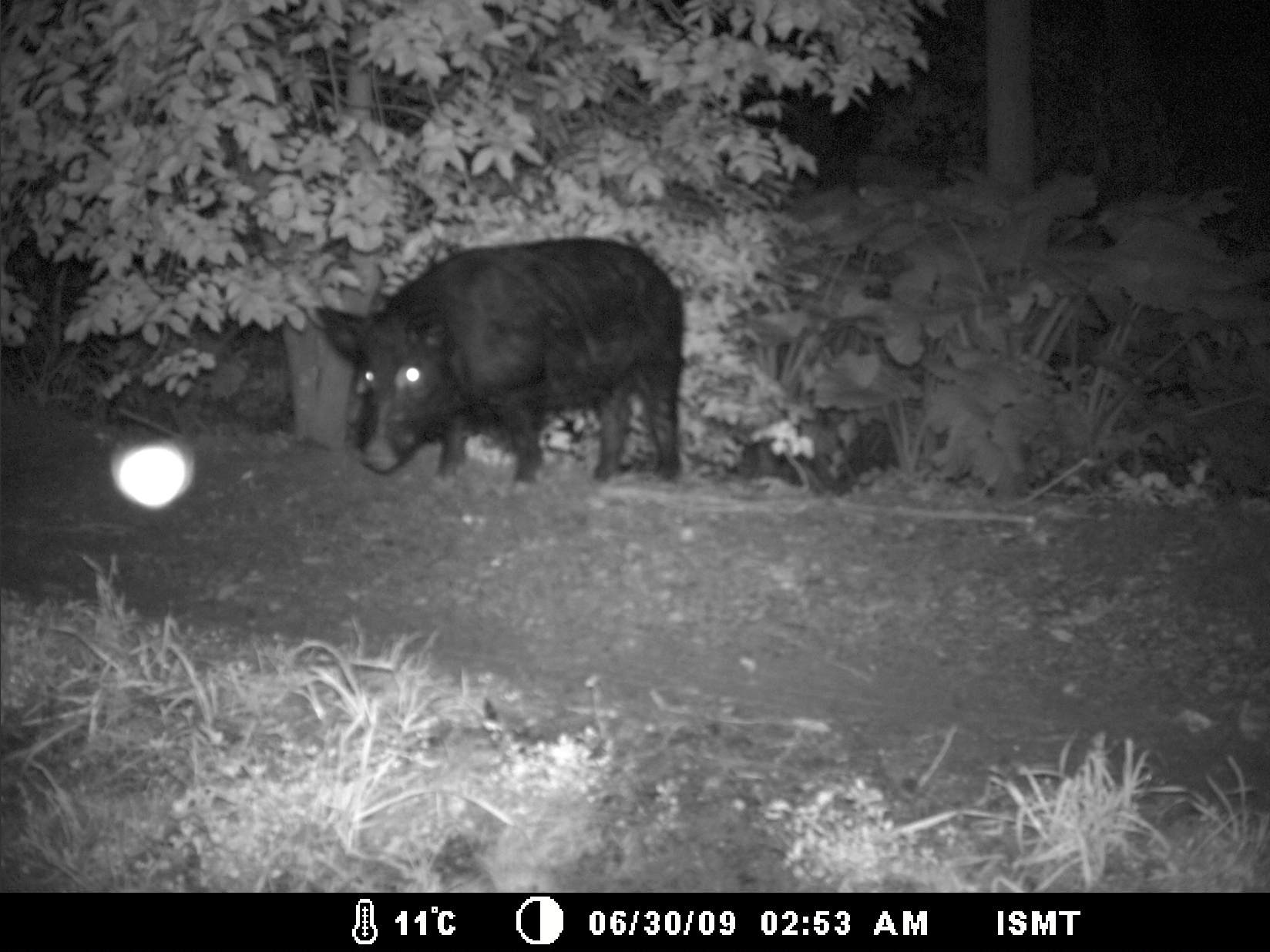 Shocked to find a feral Pig in Brisbane backyard.